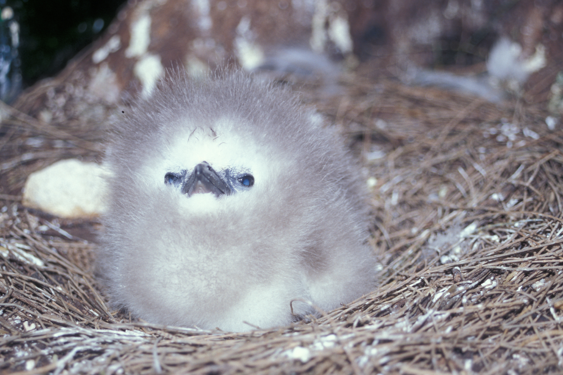 Casuarina equisetifolia (with Phaethon rubricauda chick). Location: Midway Atoll, Sand Island